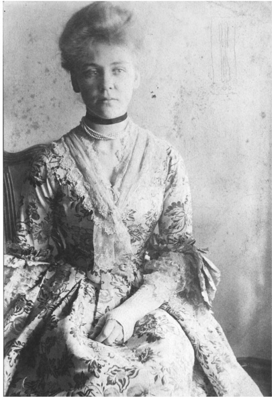 Catharine Sargent Huntington 1887-1987 wearing the wedding dress of her great great great grandmother Elizabeth Pitkin Porter (1719-1798)